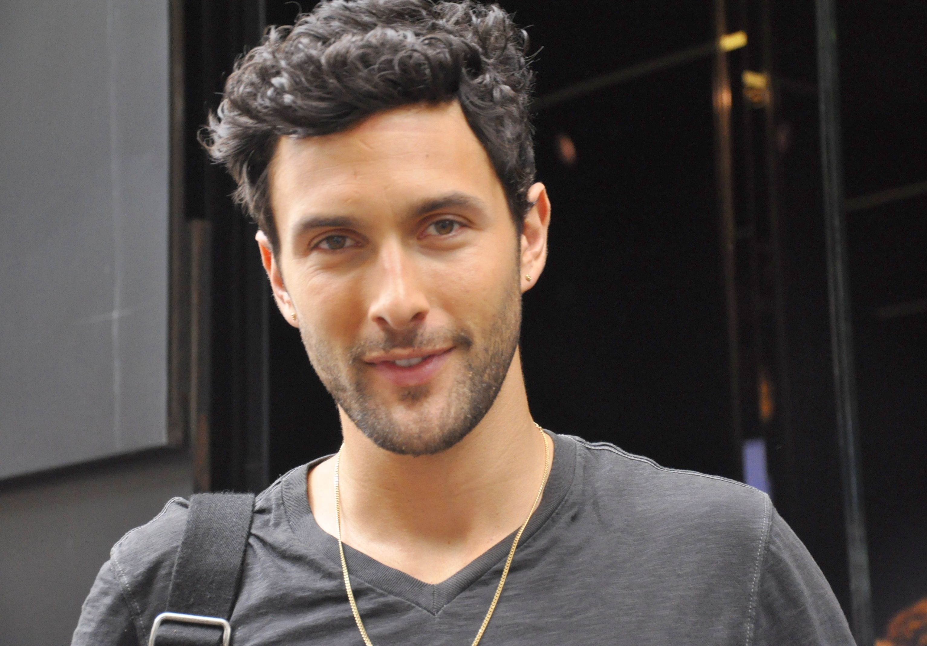 Noah Mills after the Dolce & Gabbana Summer 2012 Man Show in Milan.